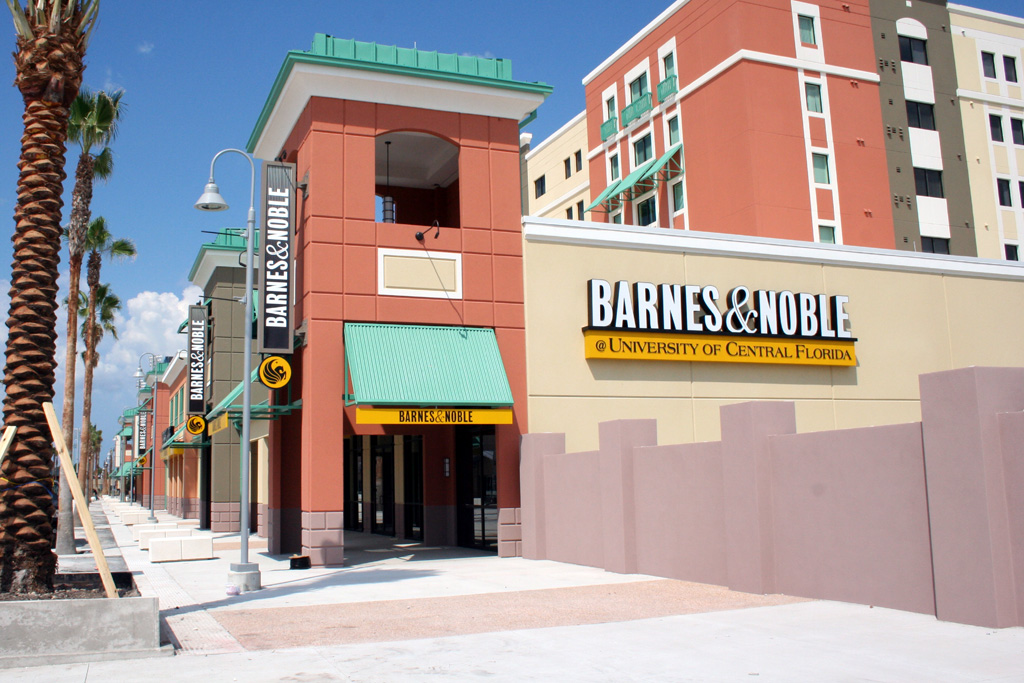 New Barnes & Noble, at UCF, taken 8/12/07